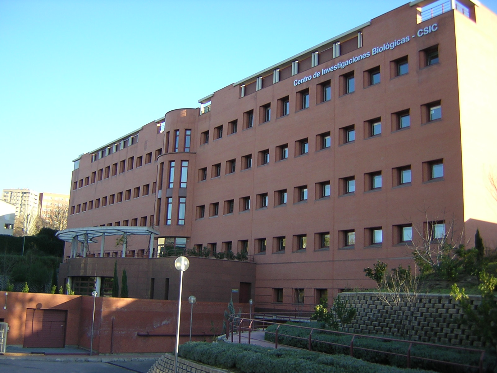 CIB